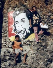 wall painting of Ché Guevara in Baucau/Timor-Leste 23nd June 2002